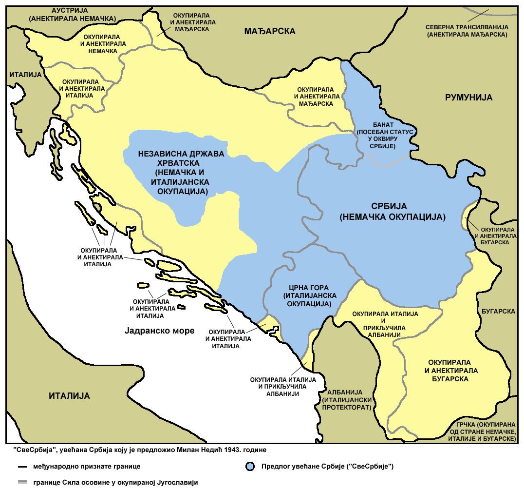 "All Serbia", an enlarged Serbia proposed by Milan Nedić in 1943.